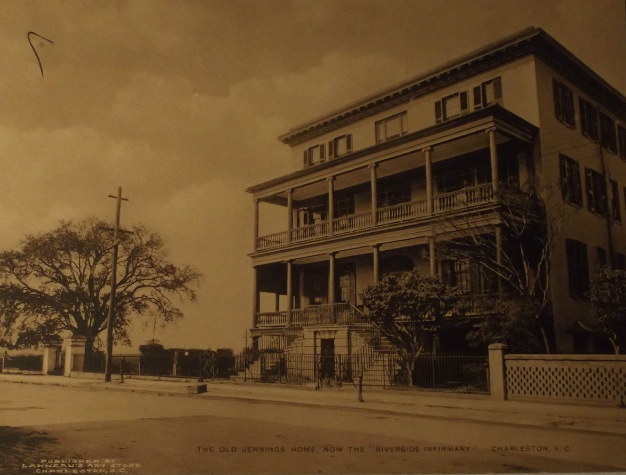 The Jonathan Lucas House at 286 Calhoun Street, Charleston, South Carolina is shown in this postcard image from about 1910.